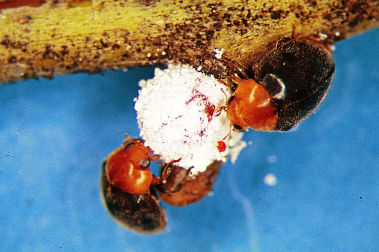 mealybug destroyer This image, or it's original, was copied from to be used in Wikimedia projects. For a complete description of the image (possibly updated!), the page at InsectImages should be considered to be the primary source, as the image database with meta data is maintained there! So, for more image-info visit the image page at InsectImages!